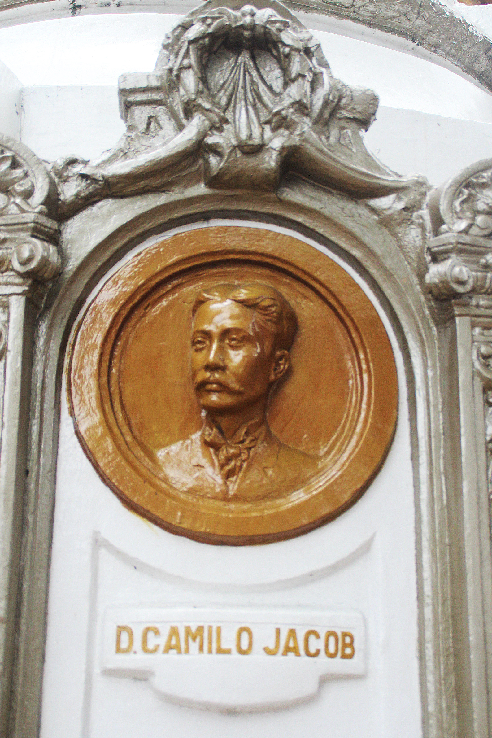 One of the 15 martyrs of Camarines during the late 19th century in the Philippines